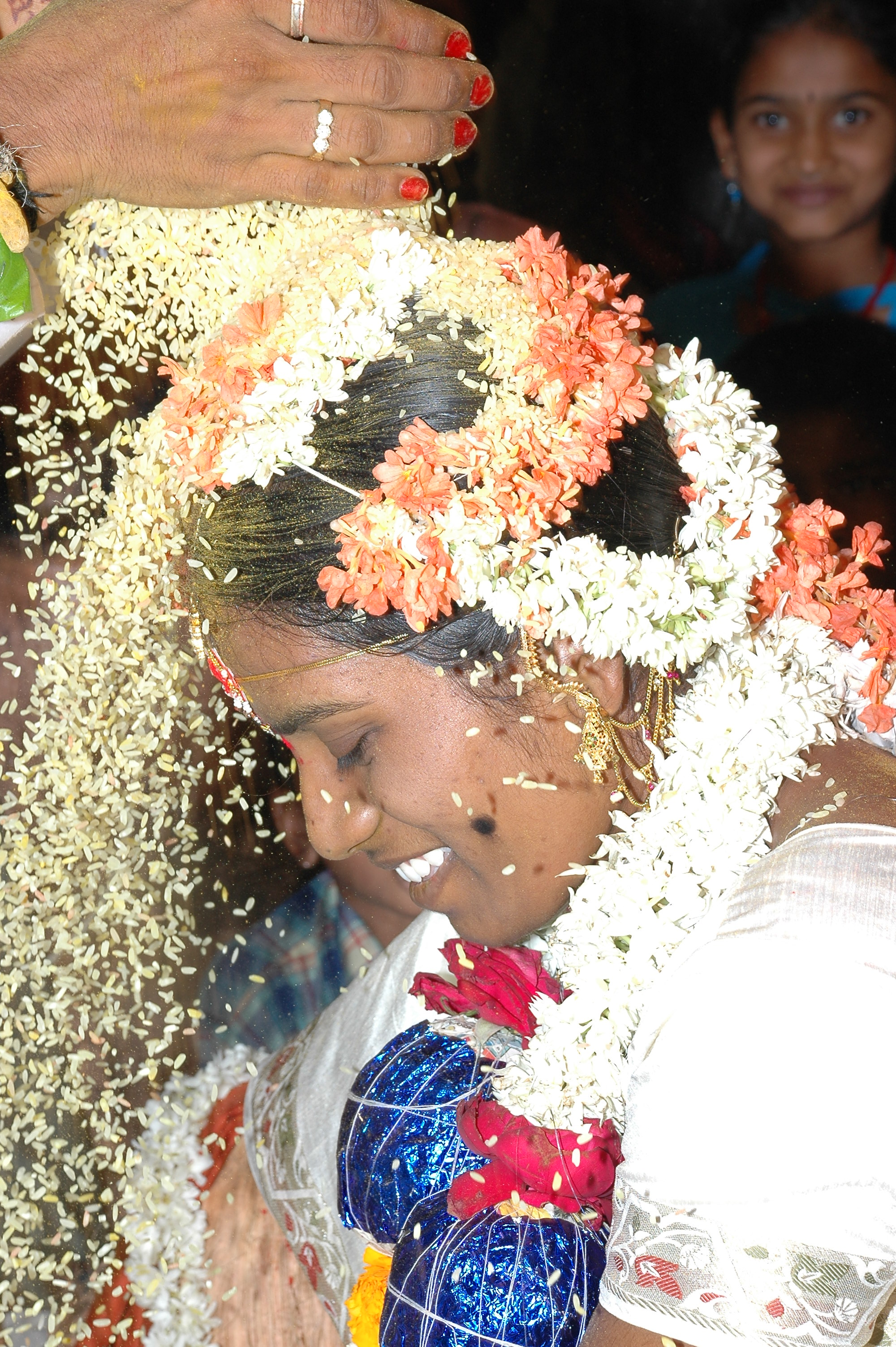 SOUTH INDIAN CULTURAL MARRIAGE FILLED WITH HEART FULL OF LOVE AND JOY This photo has been taken in the country: India